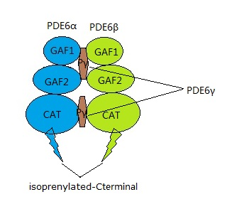 Structure of Rod Phosphodiesterase 6 complex